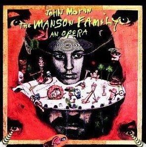 The cover of Moran's recording of "The Manson Family (An Opera)"